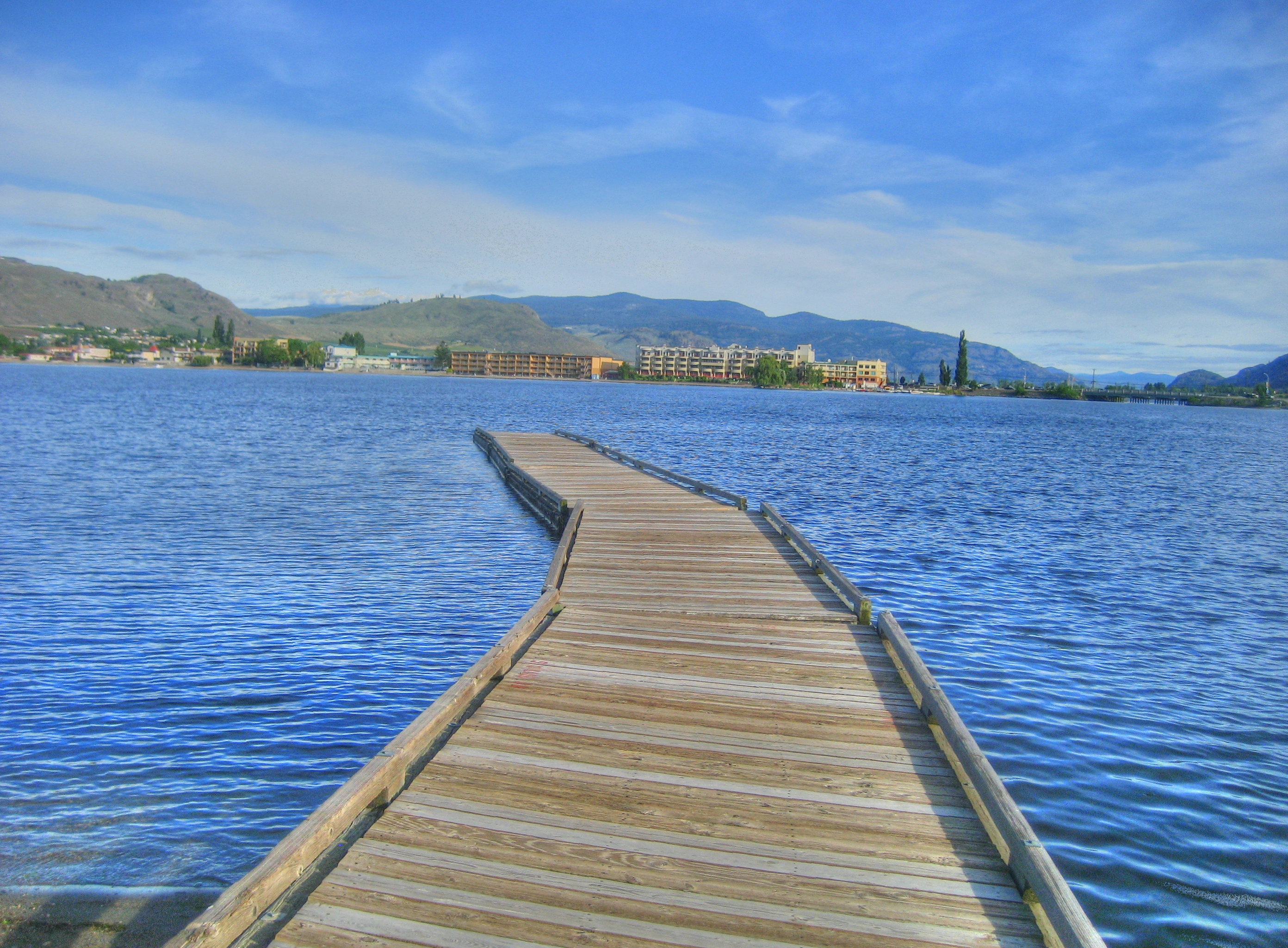 Crooked Dock on Osoyoos Lake